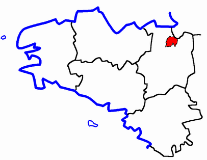 Description: Map for localisazion of cantons of Bretagne region in France Source: made by Hervé Tigier from another map